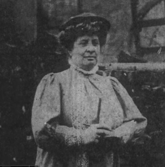 Mrs Harriet White, widow of Clark Fisher